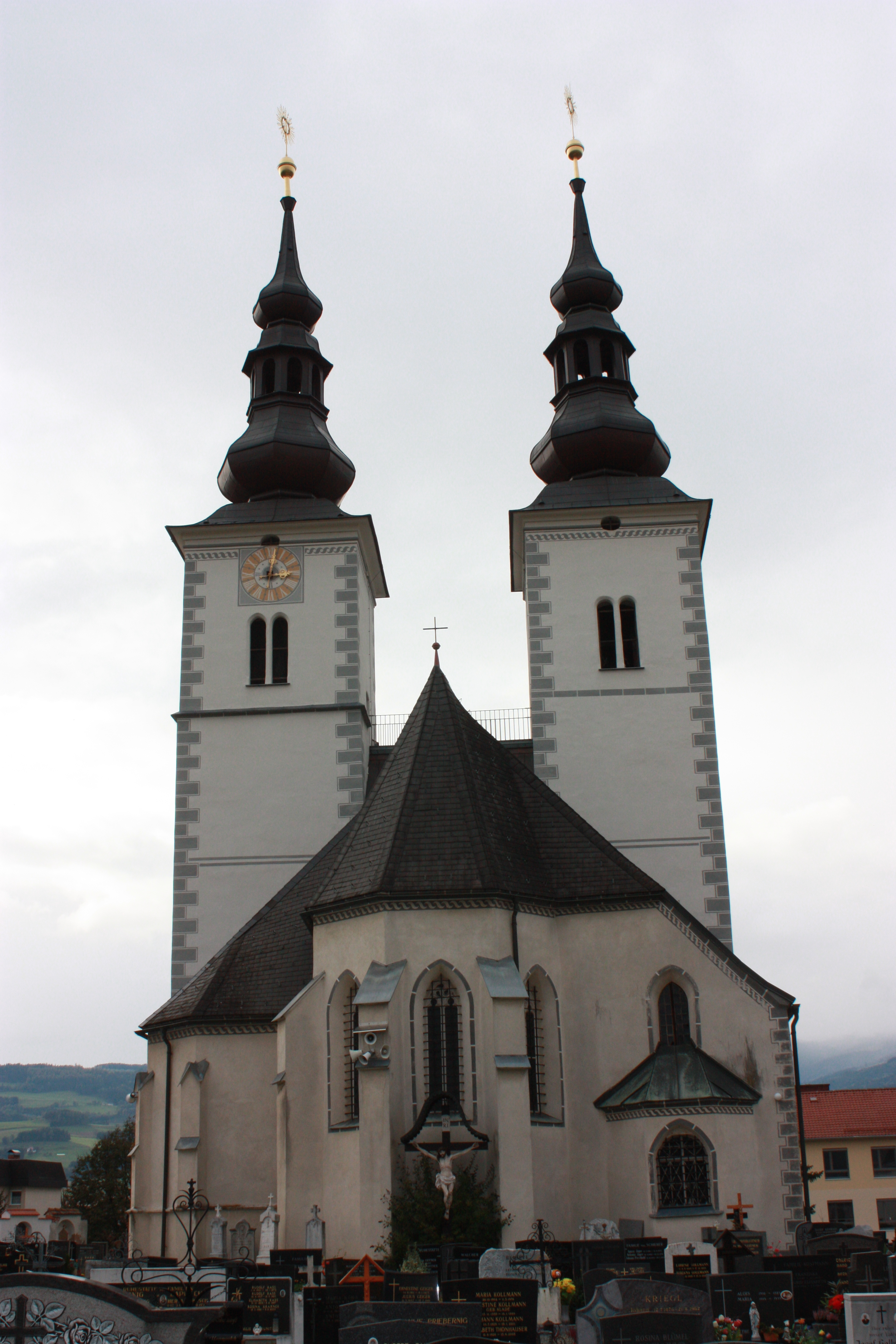 Parish church Assumption of Mary Locality: Sankt Marein im Lavanttal Community:Wolfsberg